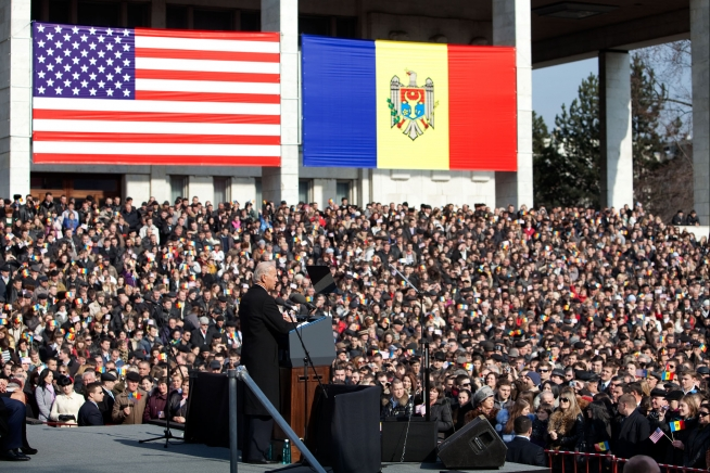 Official greeters await the arrival of Vice President Joe Biden and Dr. Jill Biden in Chisinau, Moldova, March 11, 2011. (Official White House Photo by David Lienemann)